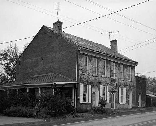 Residence and workshop of Thomas Day at Union Tavern — Main Street between Lee Street & Farmer's Alley, Milton (Caswell County, North Carolina). Photograph from the HABS—Historic American Buildings Survey images of North Carolina (cropped).